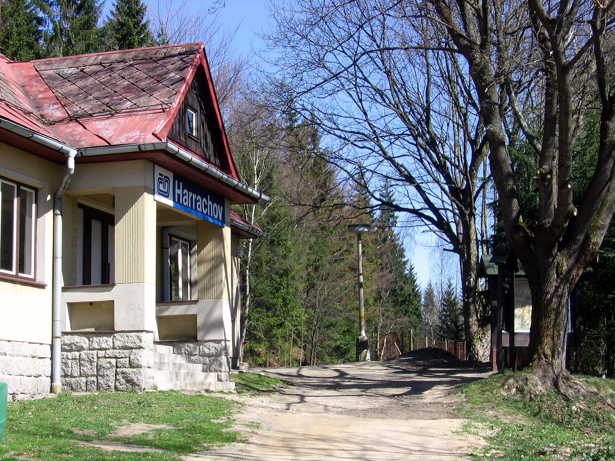 Harrachov-Mýtiny (Czech Republic) - railway station